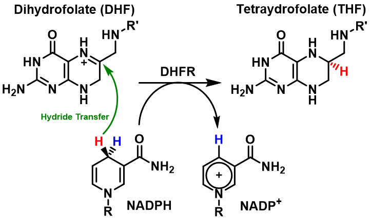 DHFR catalyze the reduction reaction of Dihydrofolate (DHF) to Tetrafolate (THF)